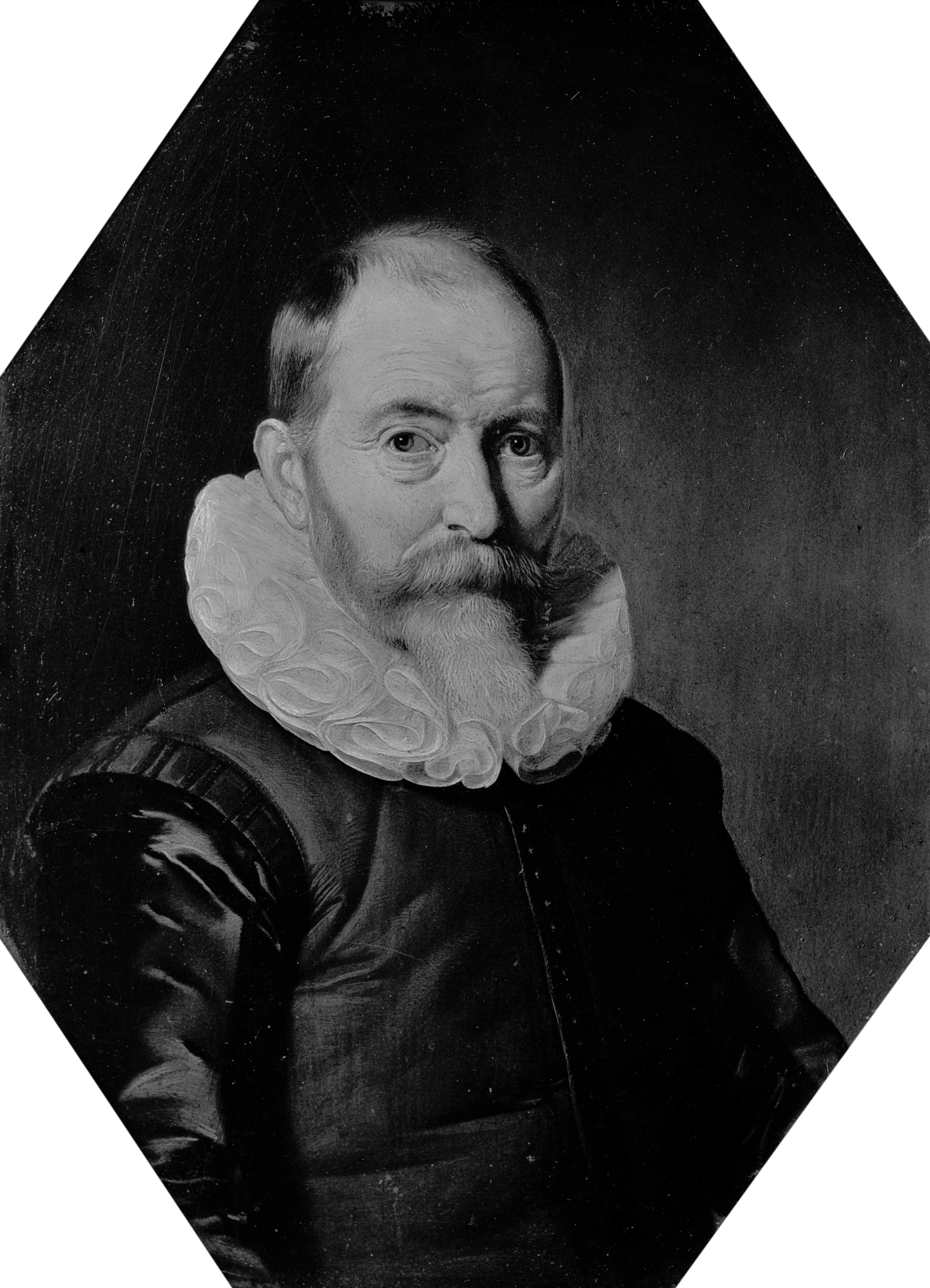 Willem Jansz. Blaeu (1571-1638) oil on copper 32,5 x 30 cm 1600 - 1624